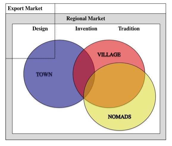 Interdependence of export and regional markets with town, village, and nomad production